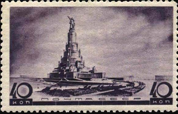 The Soviet Union 1937 CPA 549 stamp (Palace of the Soviets). Seriesː Architecture of New Moscow (On 1st Congress of Soviet Architects, 1937.06.16-26)